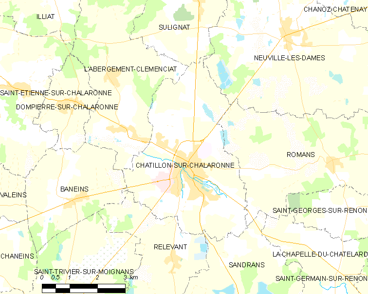 Map of French commune: Châtillon-sur-Chalaronne Map commune FR insee code 01093.png